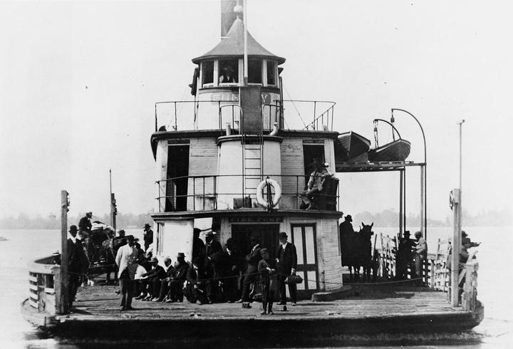 The ferry Surrey (ship, 1891), was equipped with firefighting equipment, and could be pressed into service as a fireboat.